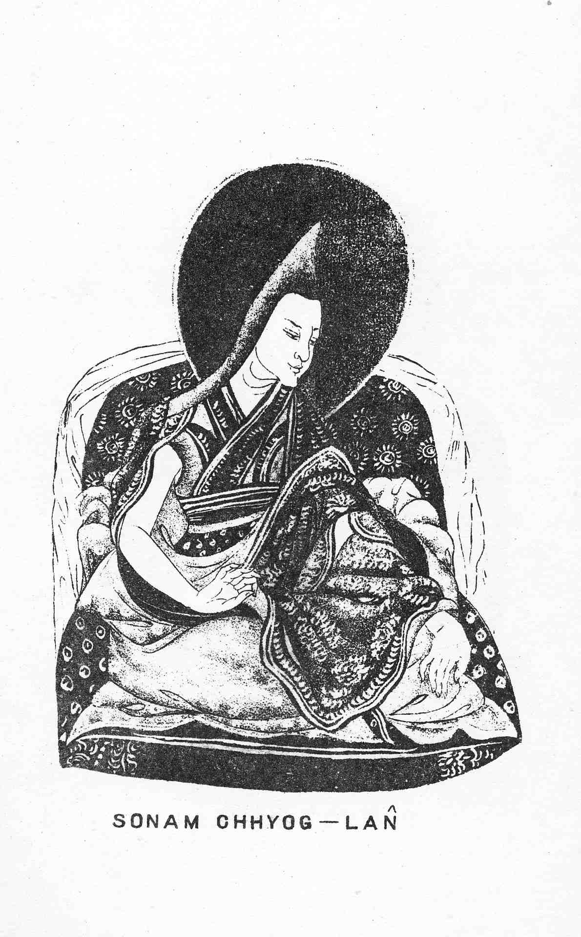 Image taken from a publication by Sarat Chandra Das (1849-1917), "Contributions on Tibet", in the Journal of the Asiatic Society of Bengal Vol. LI (1882), so it is in the public domain.